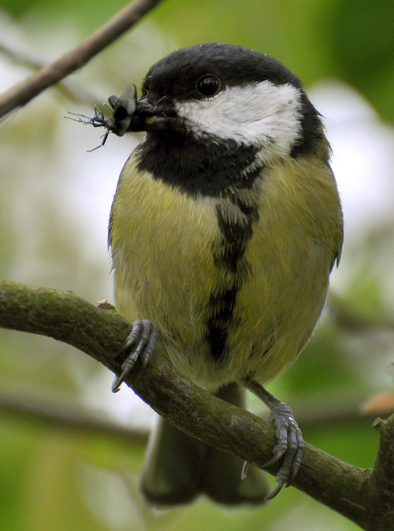 Great Tit with captured insects for its offsprings in Kirchwerder, Hamburg